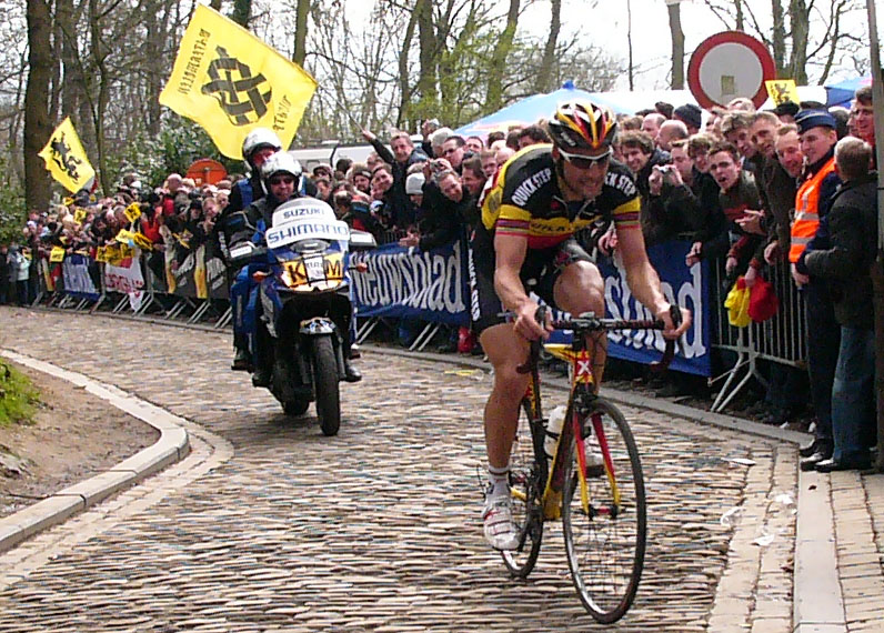 Boonen on the Muur during the Tour of Flanders